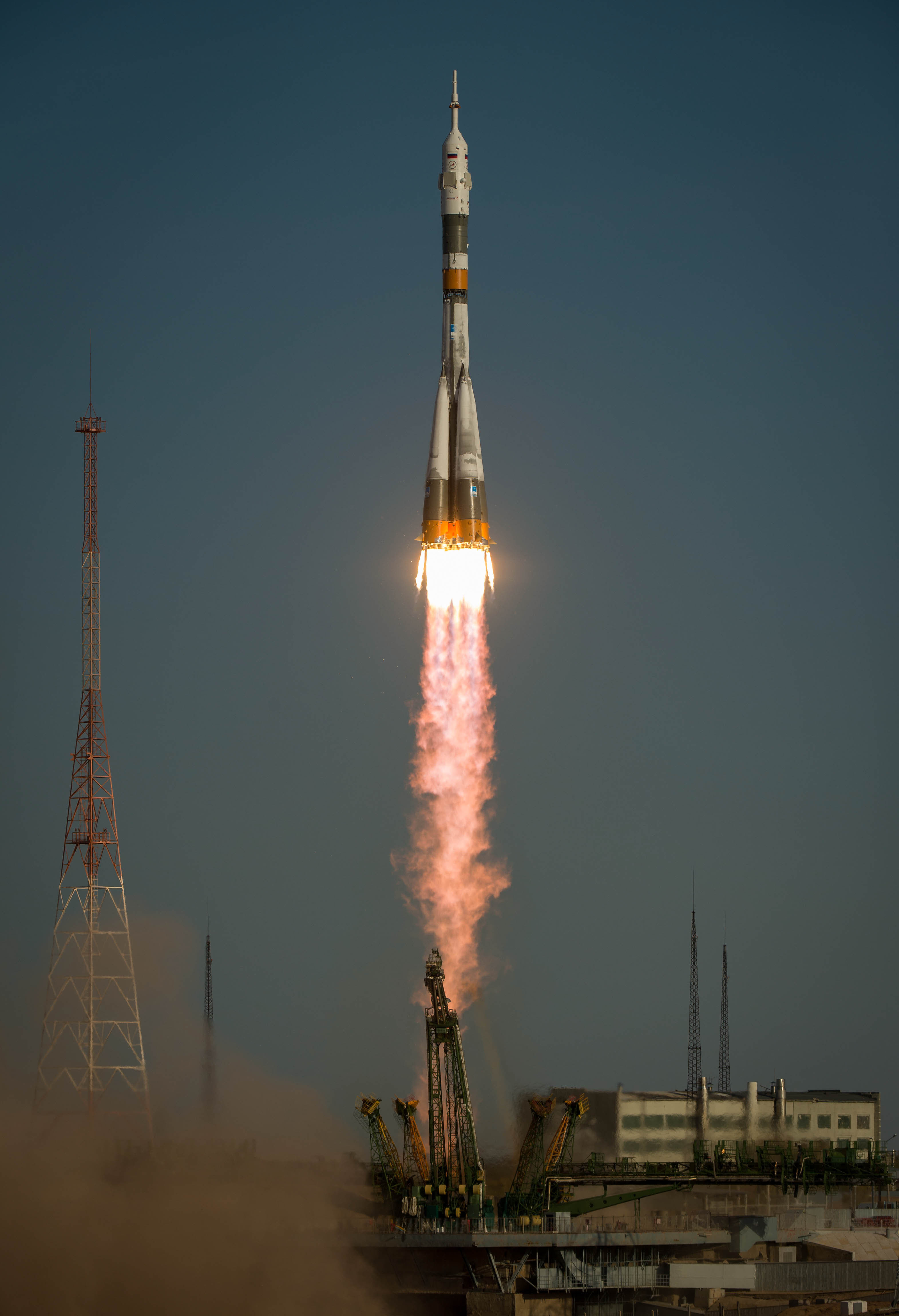 The Soyuz rocket with Expedition 33 crew members, Soyuz Commander Oleg Novitskiy, Flight Engineer Kevin Ford of NASA, and Flight Engineer Evgeny Tarelkin of Roscosmos onboard the TMA-06M spacecraft launches to the International Space Station on Oct. 23, 2012, in Baikonur, Kazakhstan. Launch occurred at 4:51 p.m. Kazakhstan time (5:51 a.m. CDT). Ford, Novitskiy and Tarelkin will be on a five-month mission aboard the International Space Station.